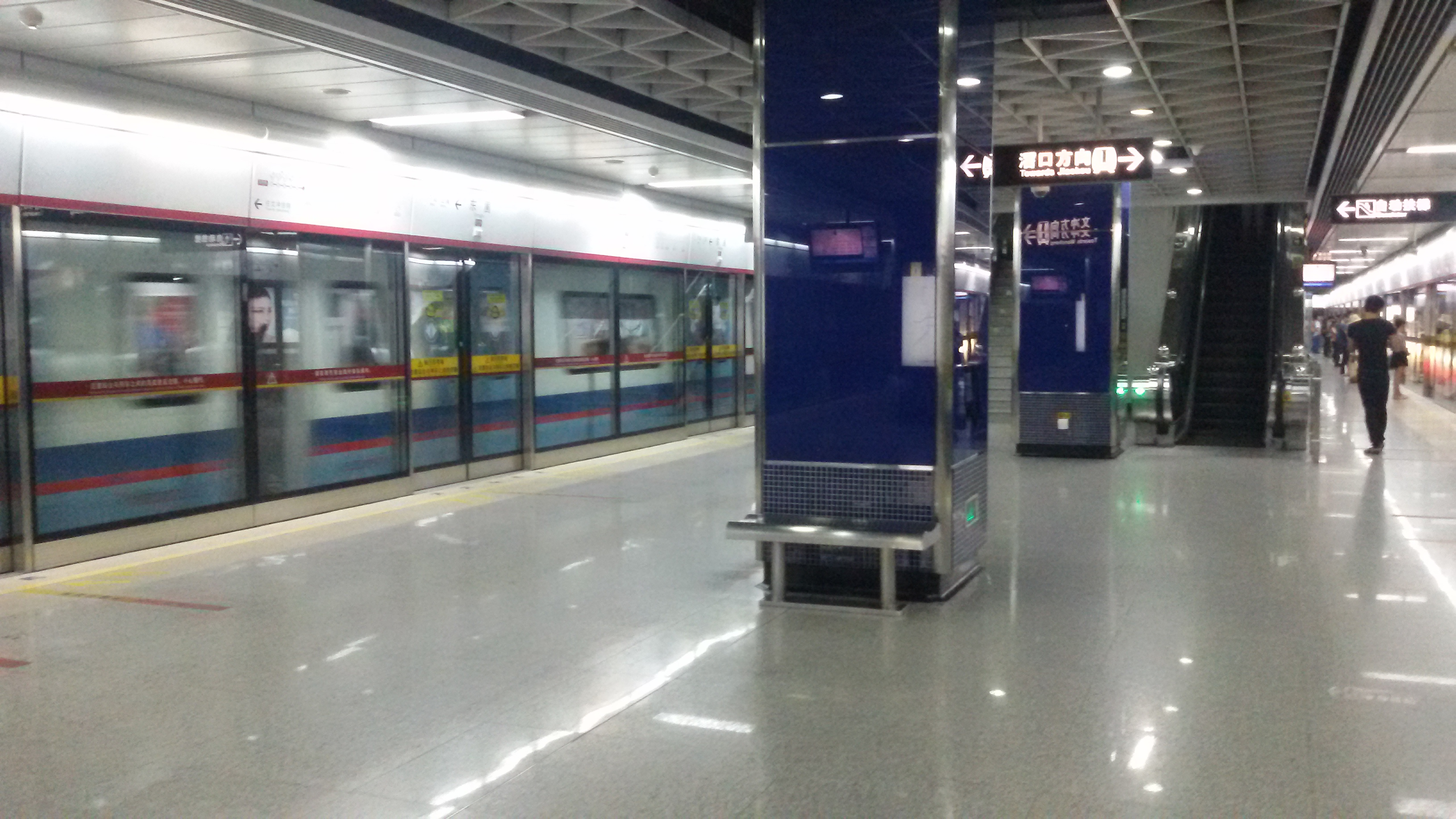 Station Platform for Dongpu Station in Guangzhou Metro.